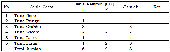 Penduduk Lewoloba yang cacat mental dan cacat fisik